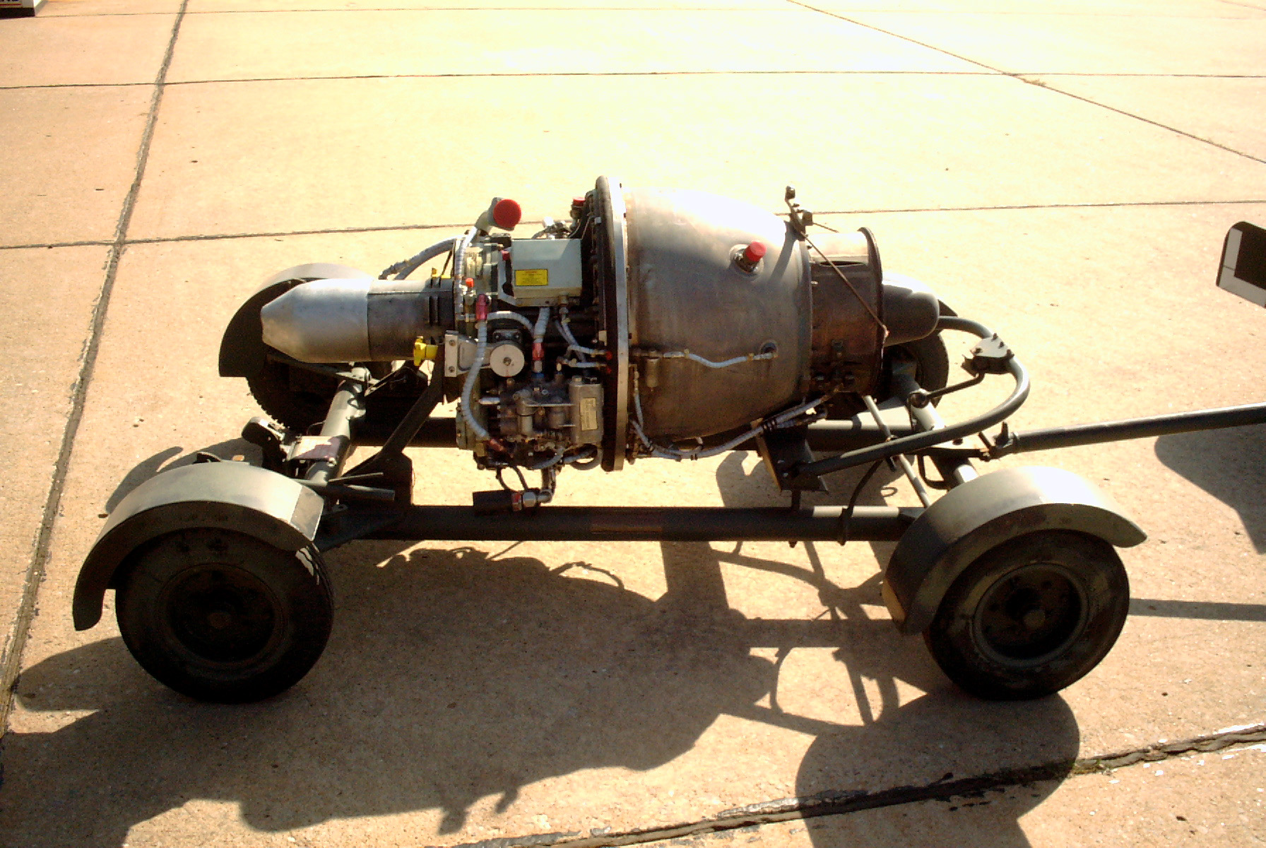 J-69 Turbojet engine at Vance AFB. This engine was a licensed variation of the Marbore series of engines.